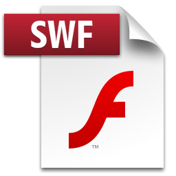 This is the icon for .SWF files from Adobe Flash CS5.